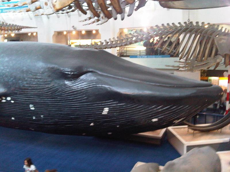 Blue whale (Balaenoptera musculus) life-size model at the Natural History Museum in London, England.